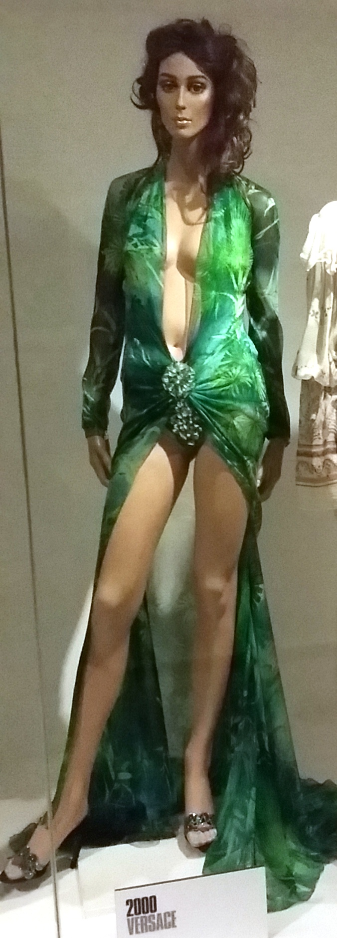 Green bamboo print silk chiffon gown.